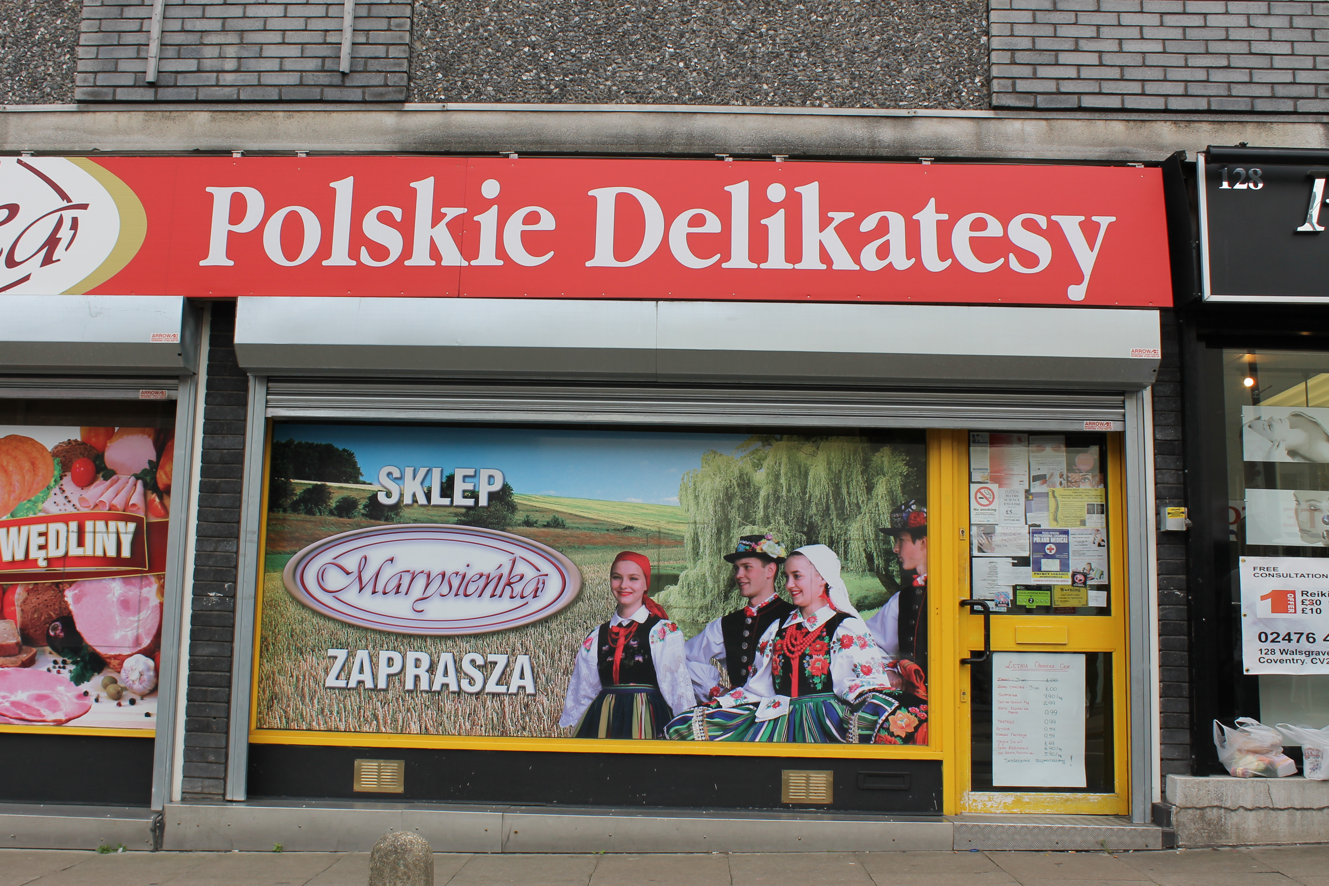 Polish food shop, Coventry